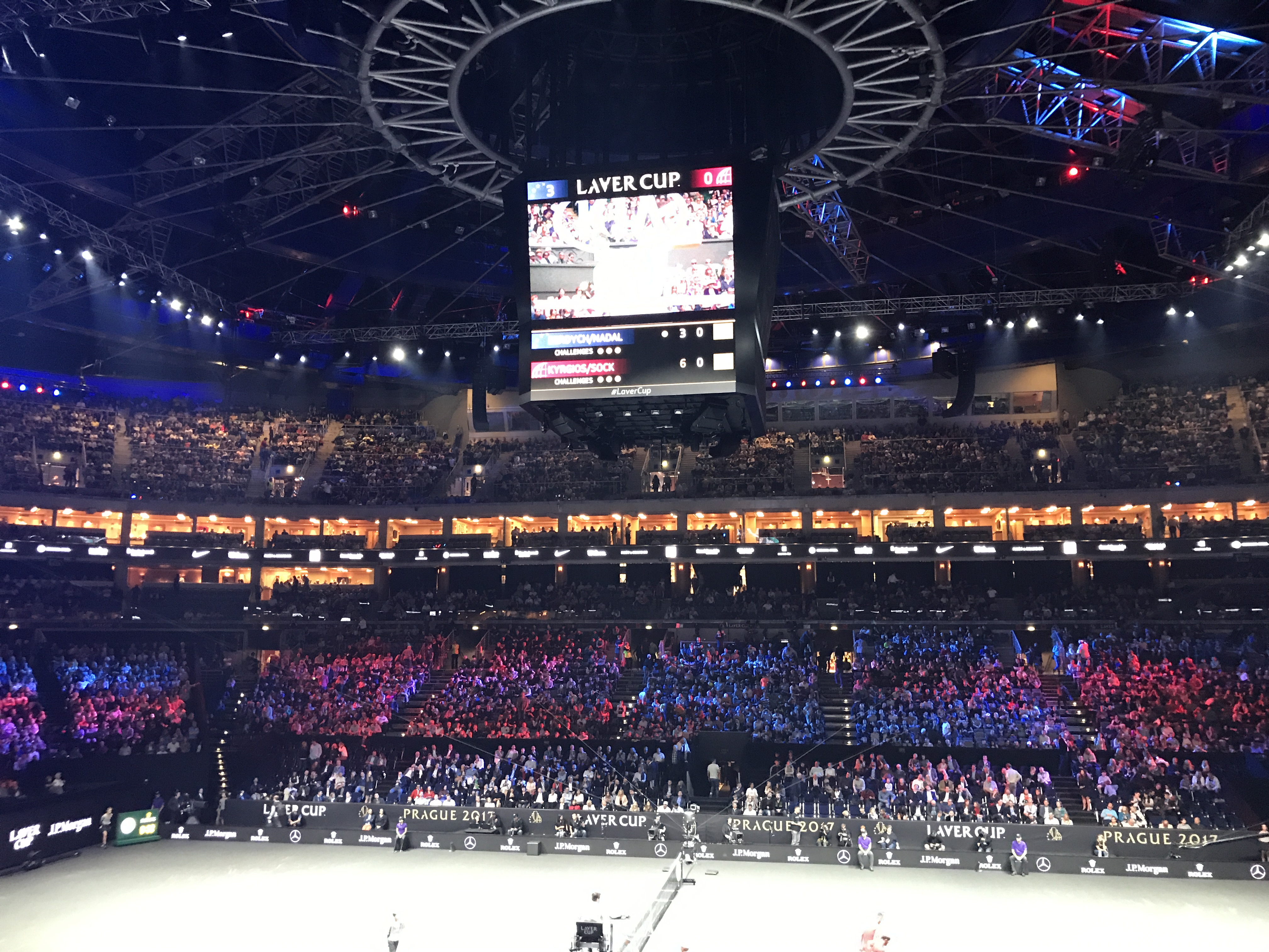 Interior of O2 Arena Prague during Laver Cup. Match Berdych + Nadal (team Europe) vs. Kyrgios + Sock (team World)